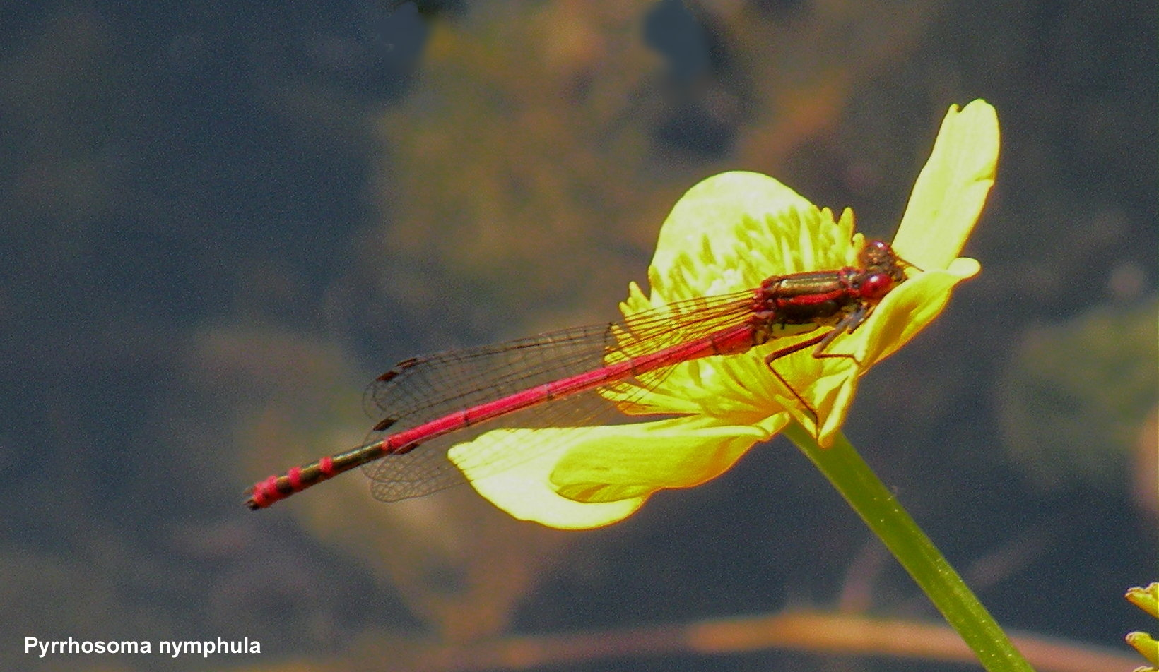 Large Red Damselfly (Pyrrhosoma nymphula)